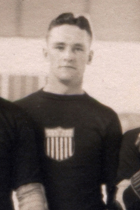 American ice hockey player Anthony Conroy representing the US national ice hockey team at the 1920 Summer Olympics in Antwerp, Belgium. The picture is a crop out of a larger team photo taken inside the ice rink Palais de Glace d'Anvers. The ice hockey tournament at the 1920 Summer Olympics took place between April 23 and April 29. The American team won silver medals at the games.